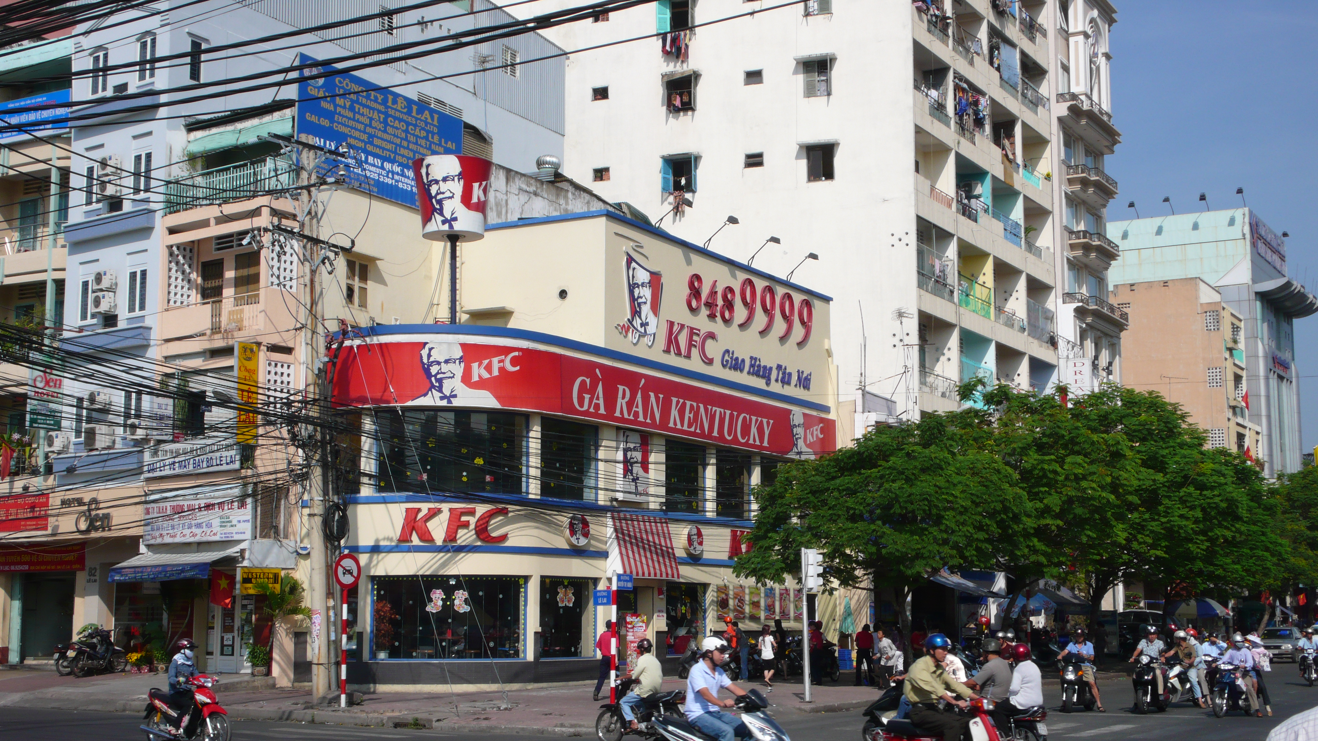 KFC is big in Asia and here's the Vietnam version. I didn't see a McDonald's in Saigon but there were several KFC's. In China KFC outnumbers McDonald's 2 to 1.